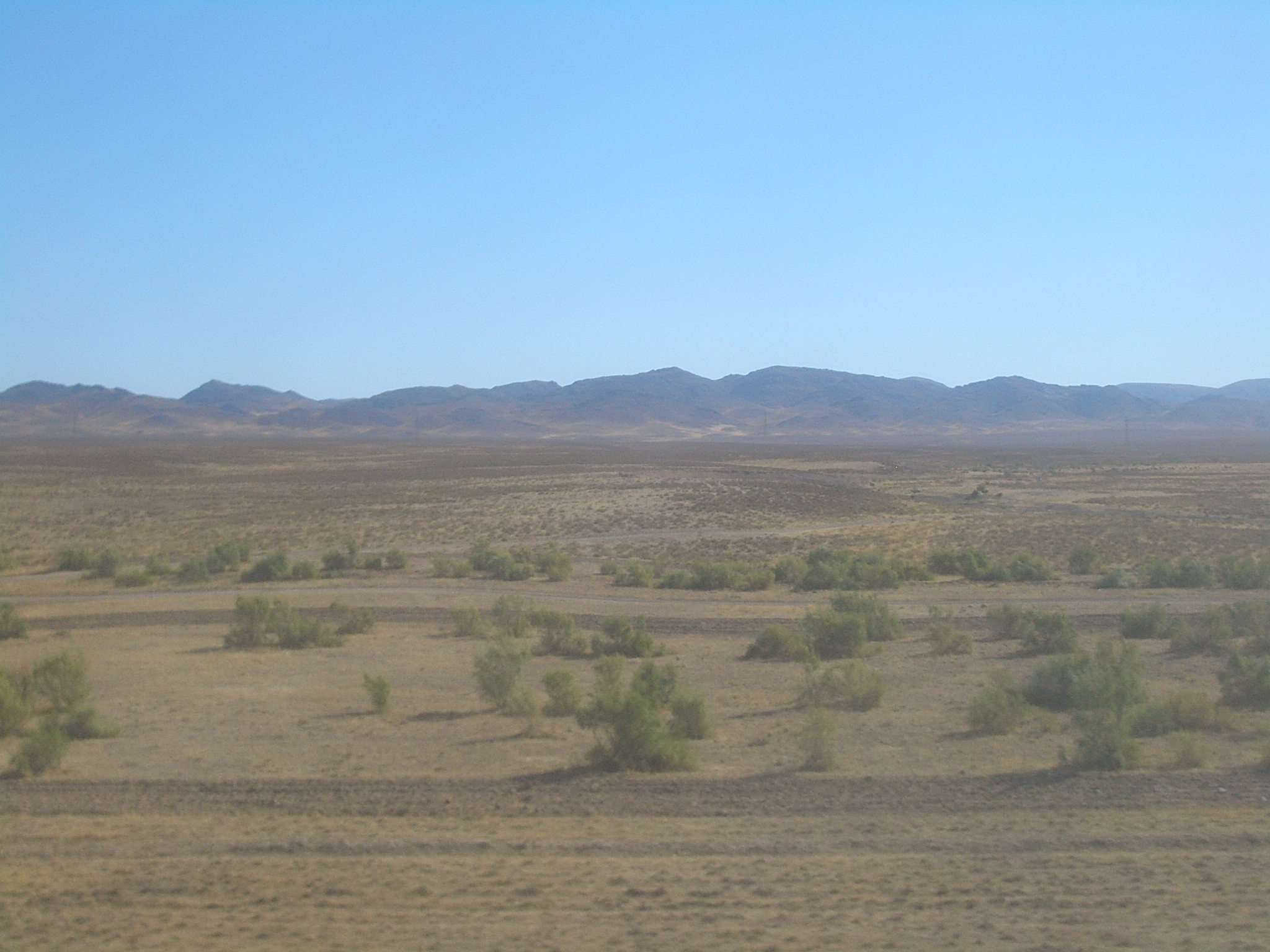 In the steppe north of Shu, Zhambyl Province. (Seen from a train).